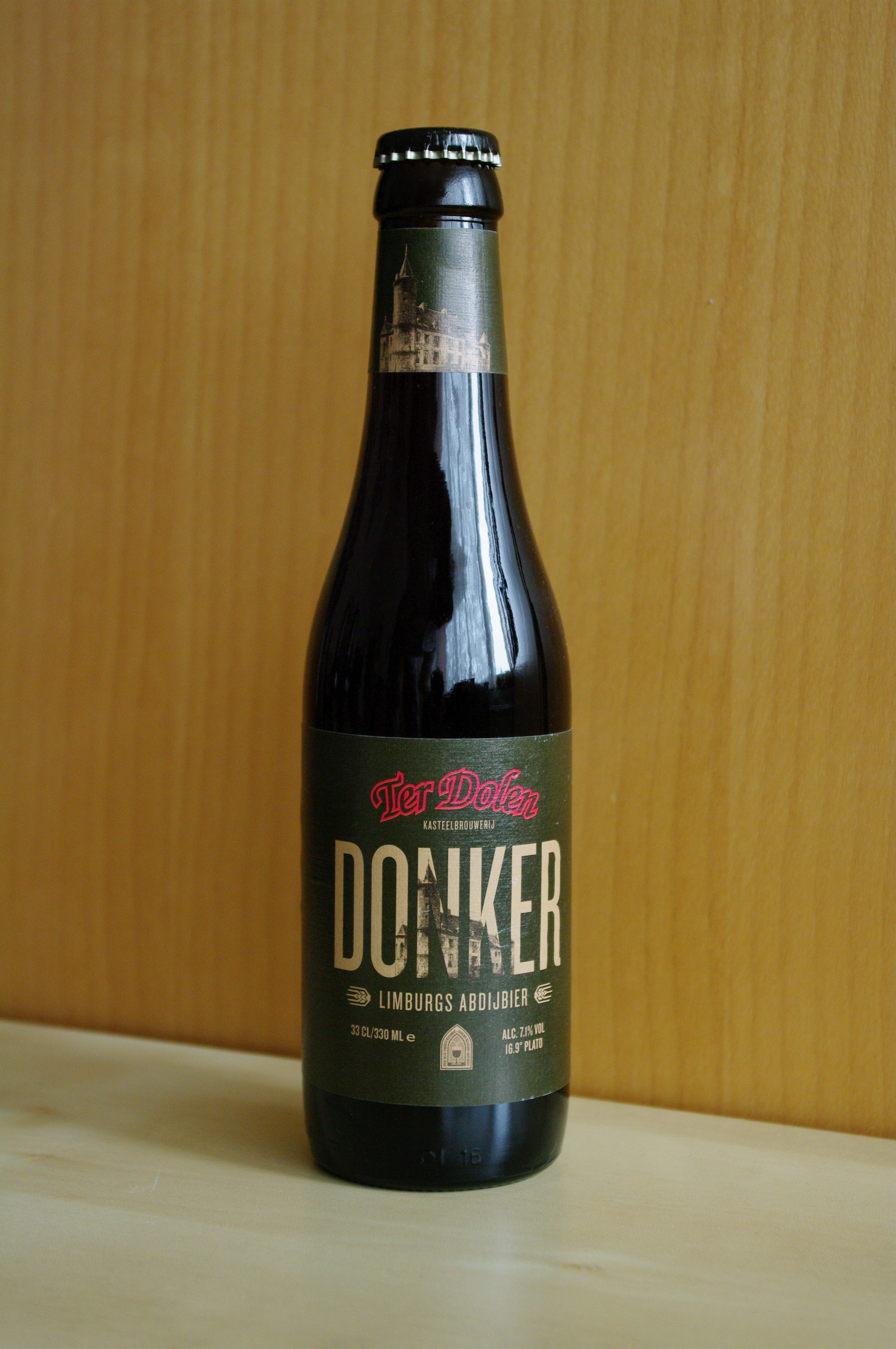 Ter Dolen donker beer